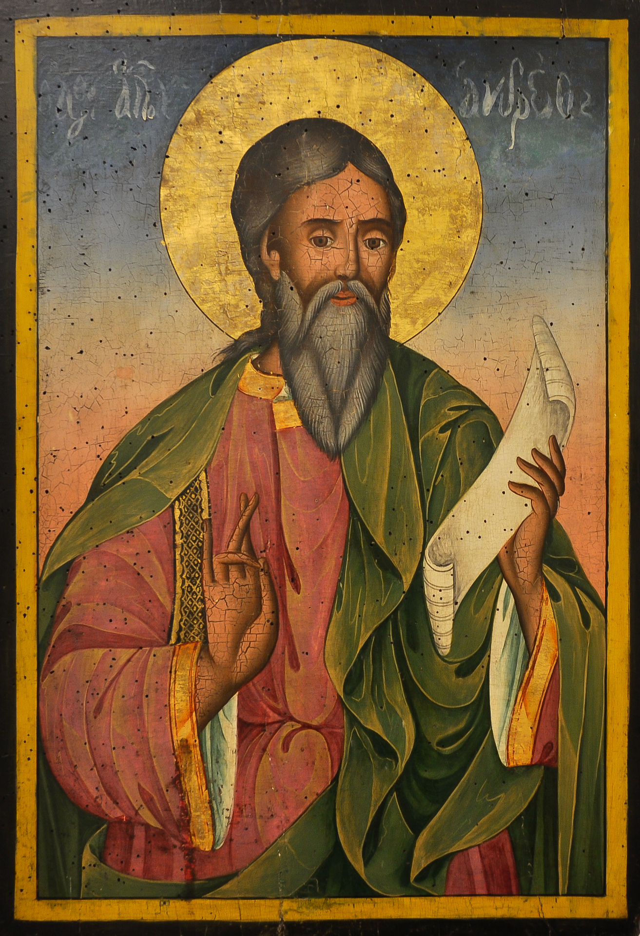 An icon of St. Andrew the Apostle by the Bulgarian iconographer Yoan from Gabrovo. 19th century. Exhibited at Hadzhi Nikoli Inn museum, Veliko Tarnovo, Bulgaria.